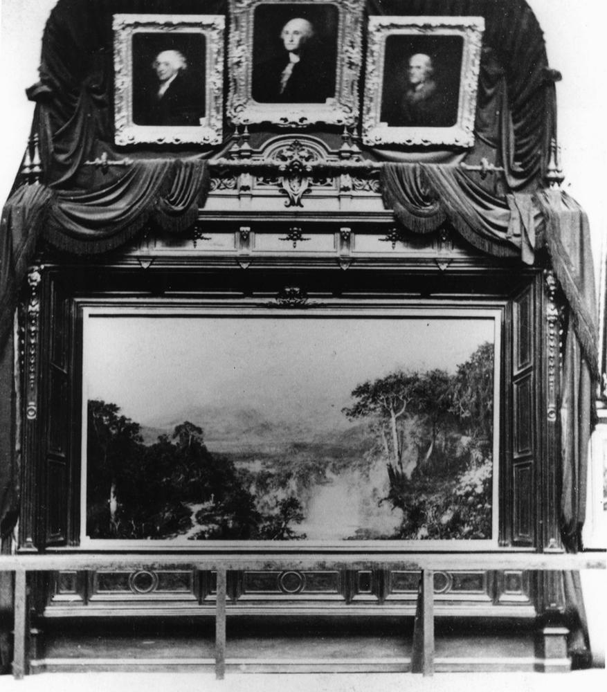 Frederic Edwin Church's The Heart of the Andes (1859) exhibited at the "Metropolitan Fair in Aid of the Sanitary Commission", New York